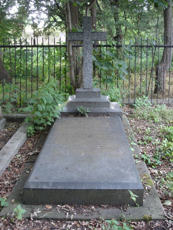 Grave of John Jackson (bishop), Brompton Cemetery.